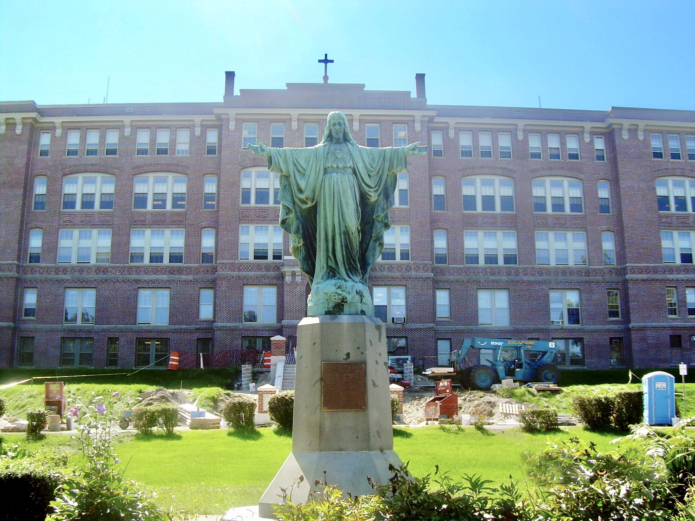 A picture of the front of the Mount Saint Charles Academy, showing the statue of Jesus in the "circle" and the work on the renovation of the front steps as of September 21, 2006. Photo credit: Beth Garceau, Mount student.